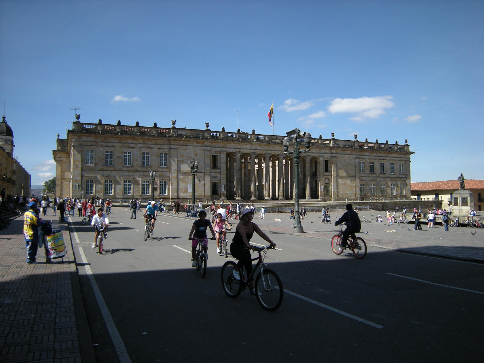 Governament palace of Bogota